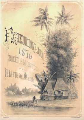 Diario de Manila. Covering of the expedition to Jolo in 1876 (Spanish-language Newspaper supplement from the Philippines)